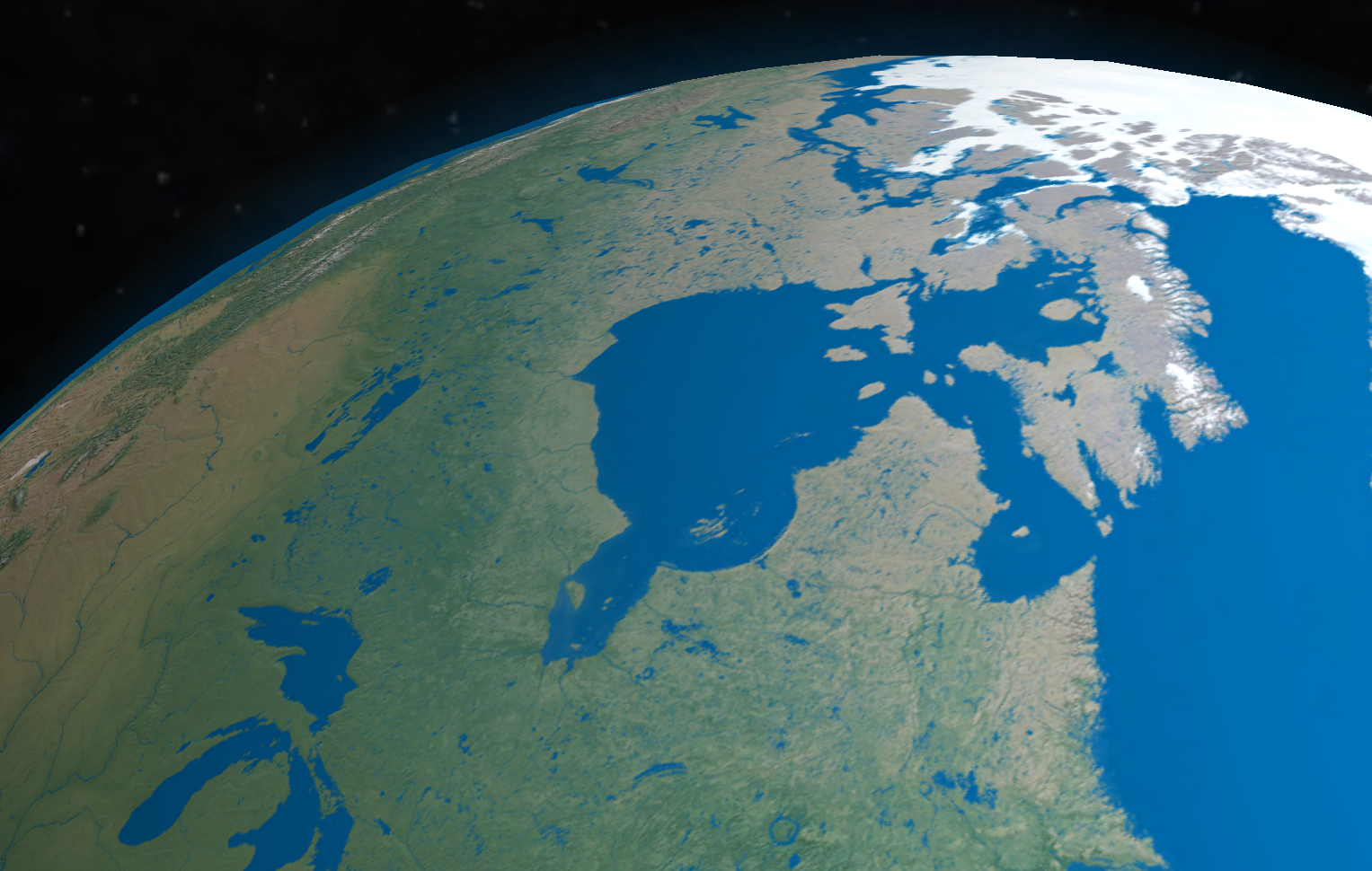 Digital rendering of the satellite view of the Hudson Bay. This globe rendering is a screenshot from the Globe Master geography game, shared by the game authors. For the globe texture, Whole world - land and oceans composite image was used, created by NASA/Goddard Space Flight Center (public domain).